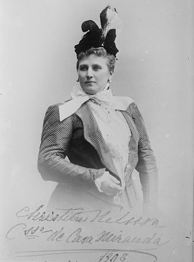 Christina Nilsson, Countess de Casa Miranda, (1843 – 1921), Swedish operatic soprano